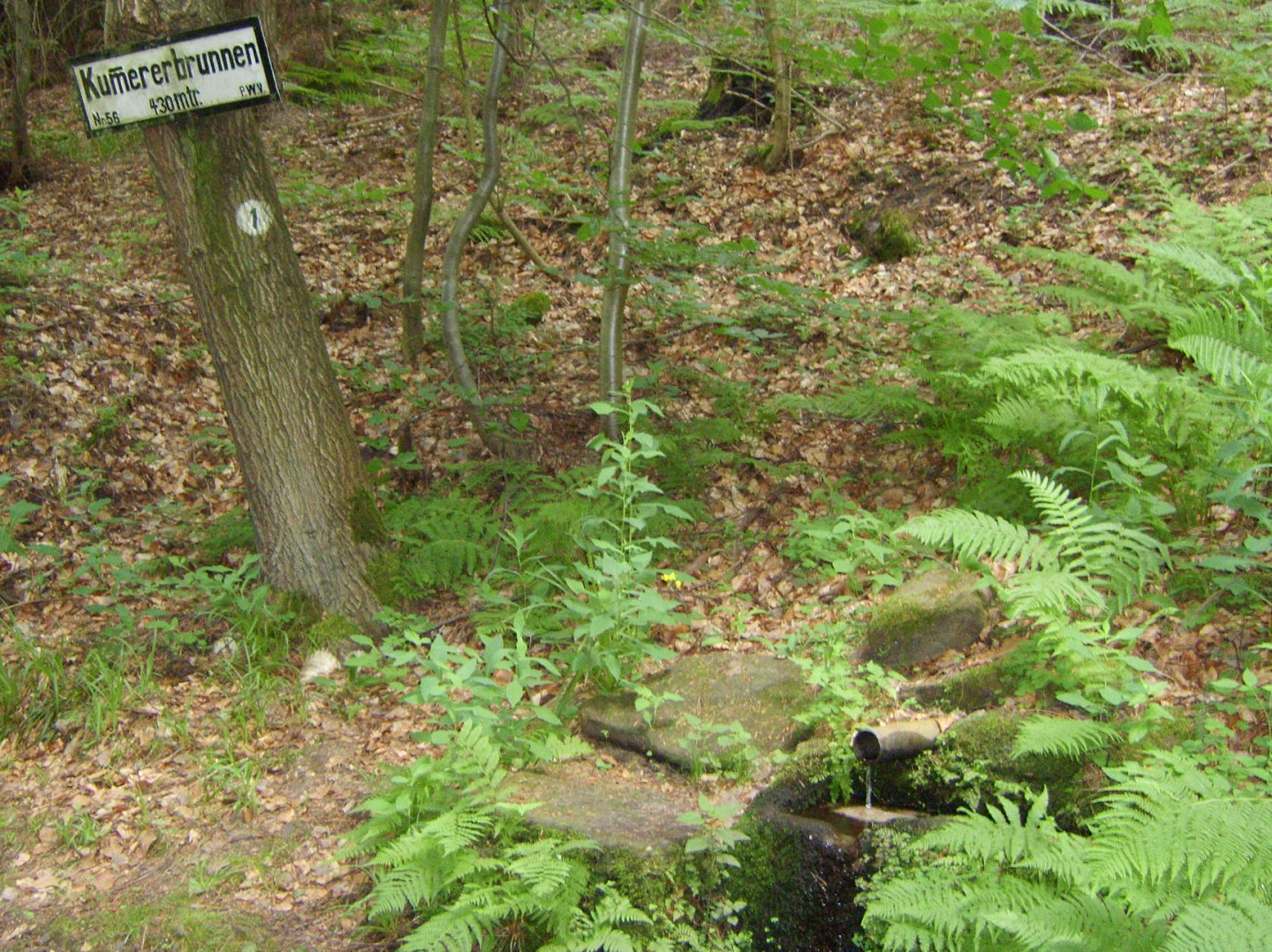 Kummererbrunnen, a spring near the Drachenfels, Pfälzerwald, elevation 430 m